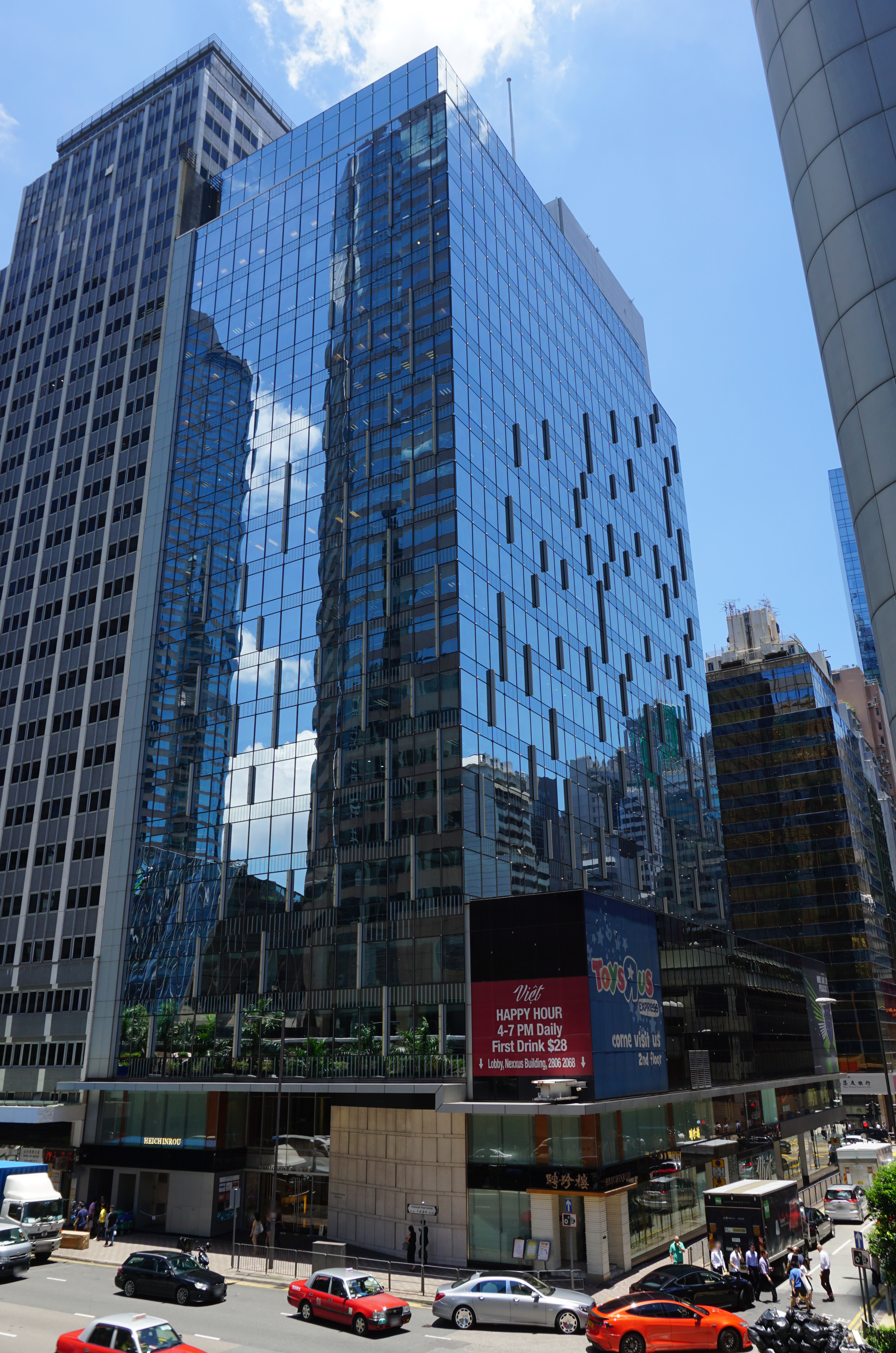 Nexxus Building in Central, Hong Kong.